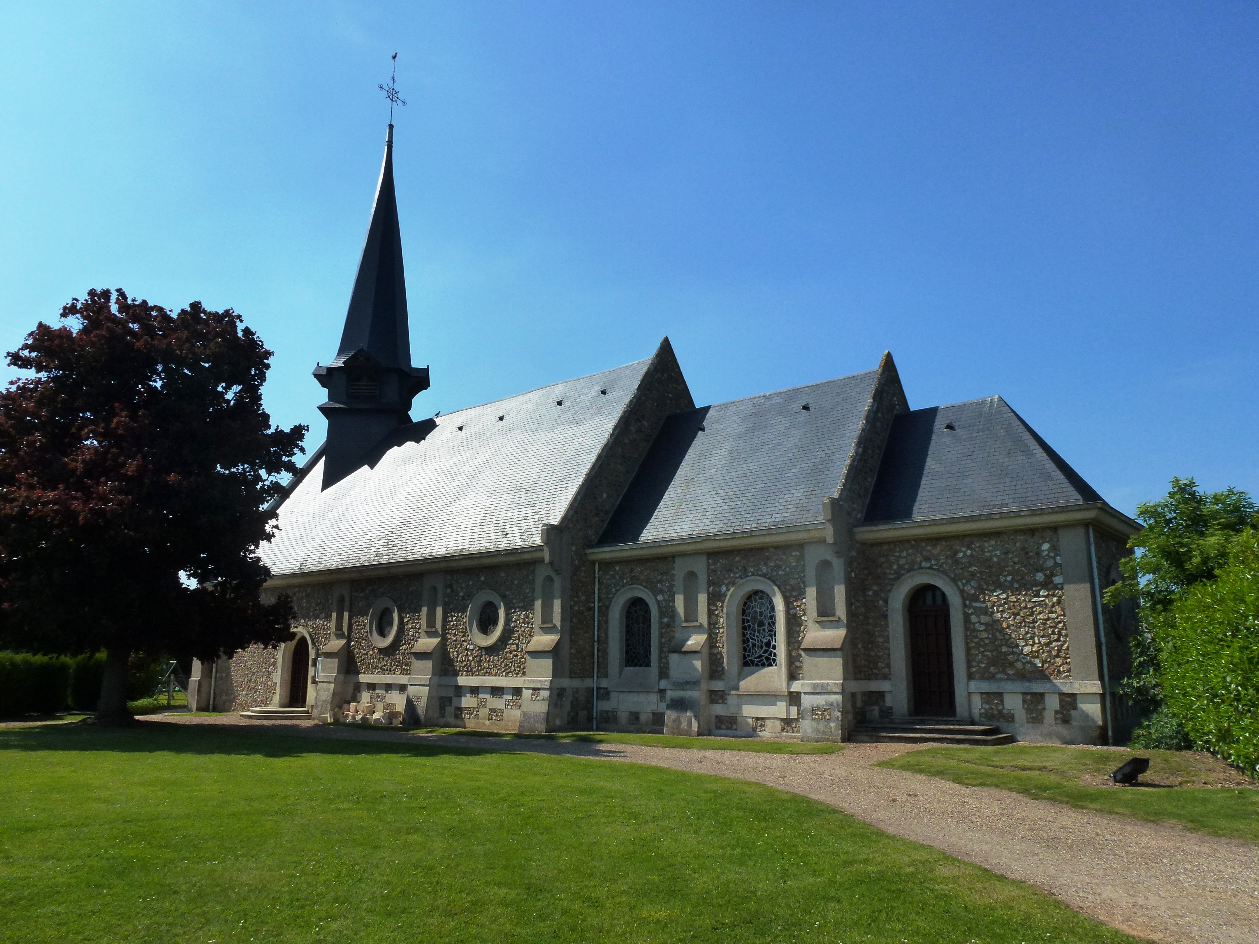 Berville-la-Campagne (Eure, Fr) église Notre-Dame-de-Fatima